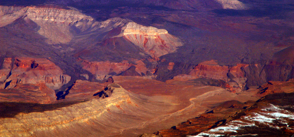 Here lava from the Uinkaret volcanic field slops down into the Grand Canyon from its north rim. On the right is Lava Falls, with Vulcan's Throne at the top. The throne is about 73,000 years old. These are among the most recent features of the Grand Canyon. The topmost or newest layers over which the lava flowed — Kaibab Limestone — was laid down in early Permian time, around 290 million years ago. All the rocks below are older, on down to the Vishnu group at the bottom of the canyon, around 1.7 billion years old.